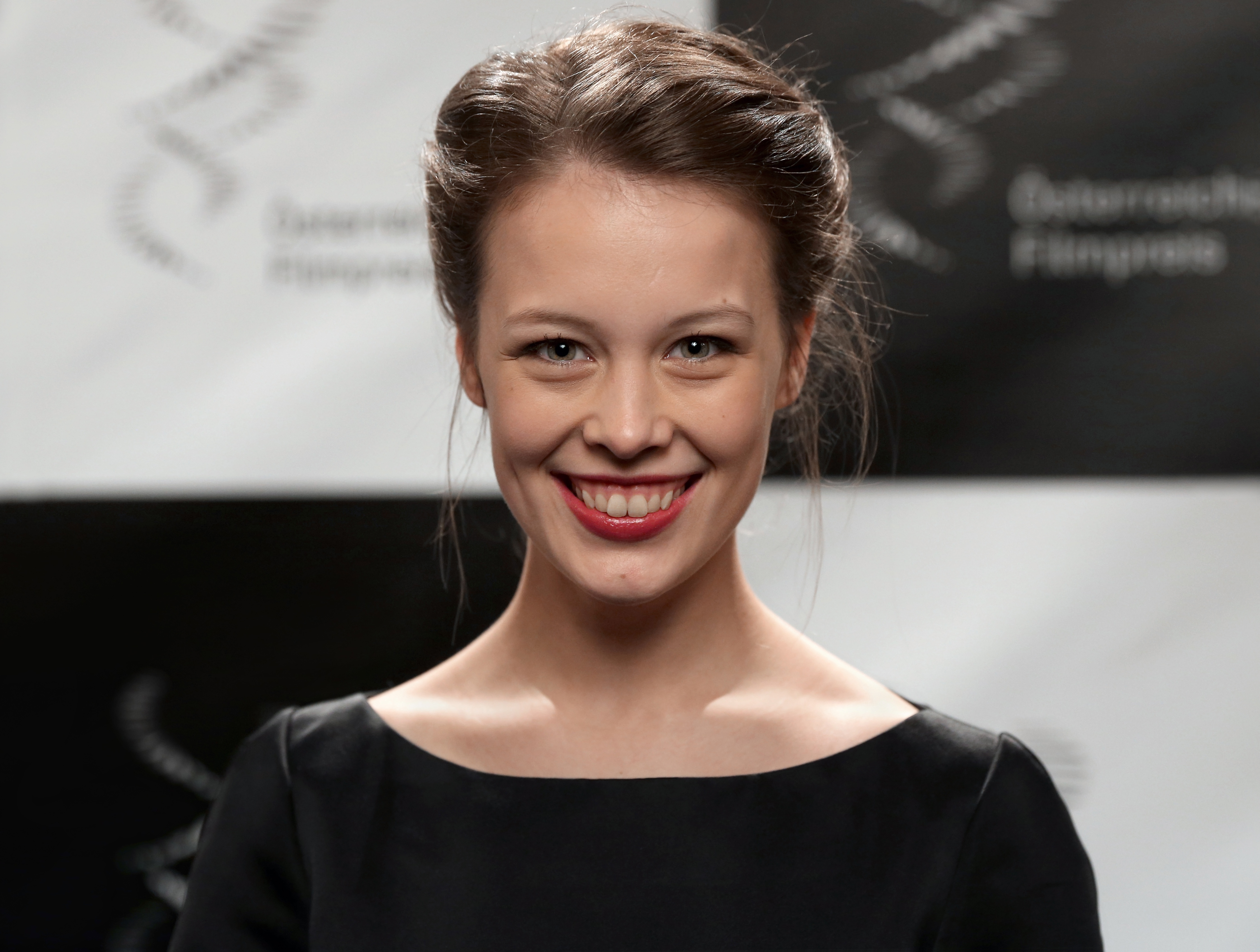 Paula Beer, nominee as best actress in The Dark Valley, at the Austrian Film Awards 2015 at Rathaus, Vienna,Austria.